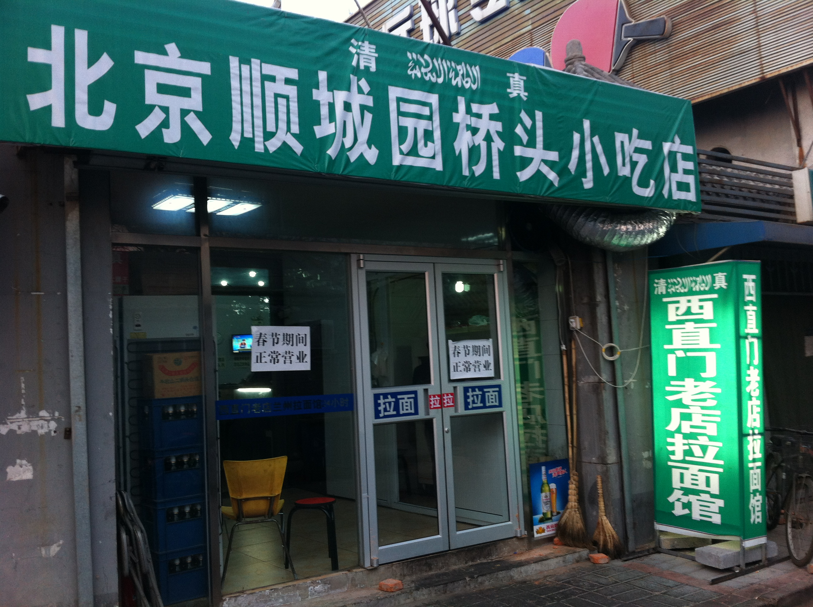 Just east of Beijingbei Railway Station, this bistro was originally located east of Xizhimen Bridge.